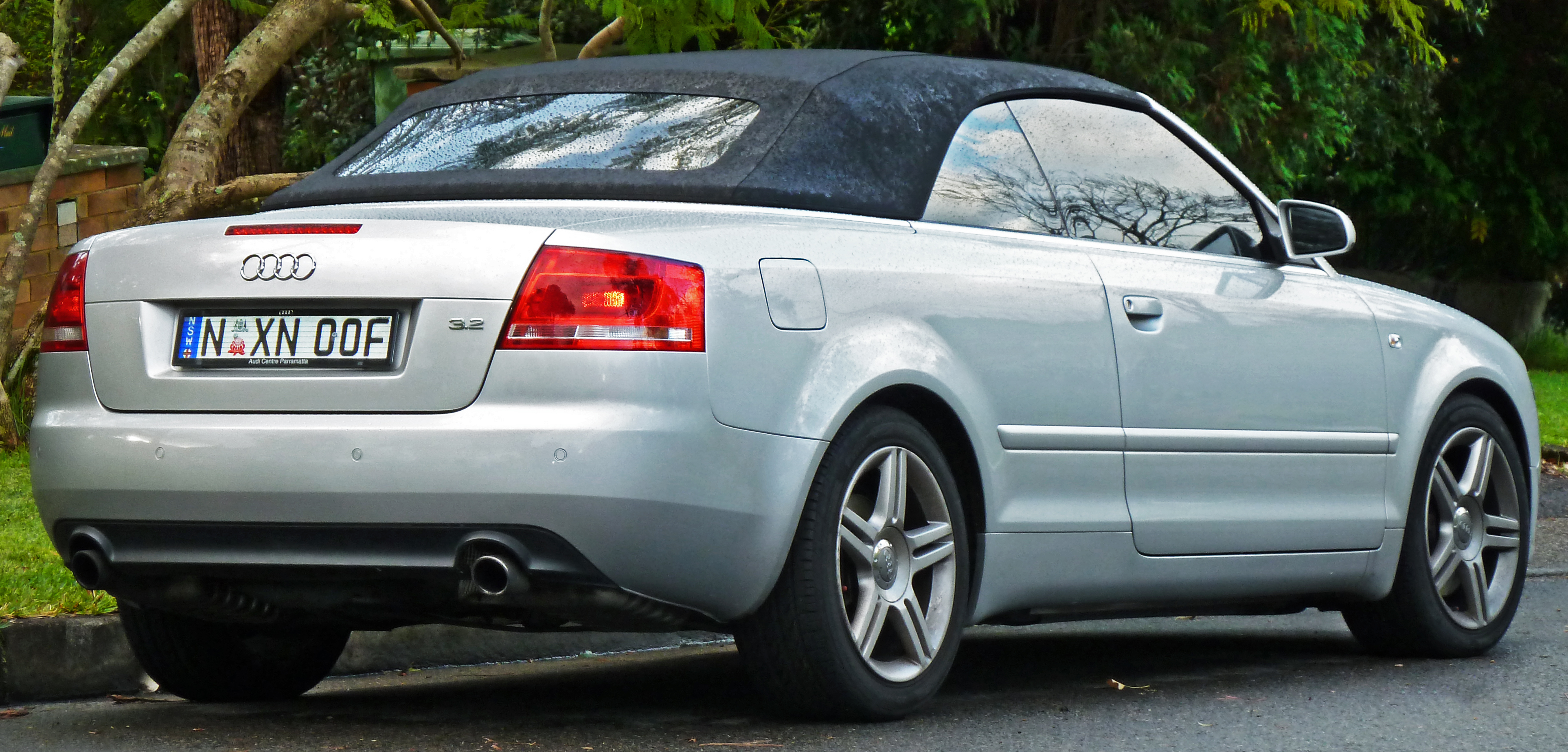 2006–2009 Audi A4 (8HE) 3.2 FSI convertible. Photographed in Roseville, New South Wales, Australia.